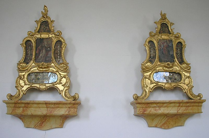 Chapel of ease St. Leonhard (Berghofen, Stadt Sonthofen, Landkreis Oberallgäu, Bavaria, Germany). Reliquaries at the nave (ca. 1760)